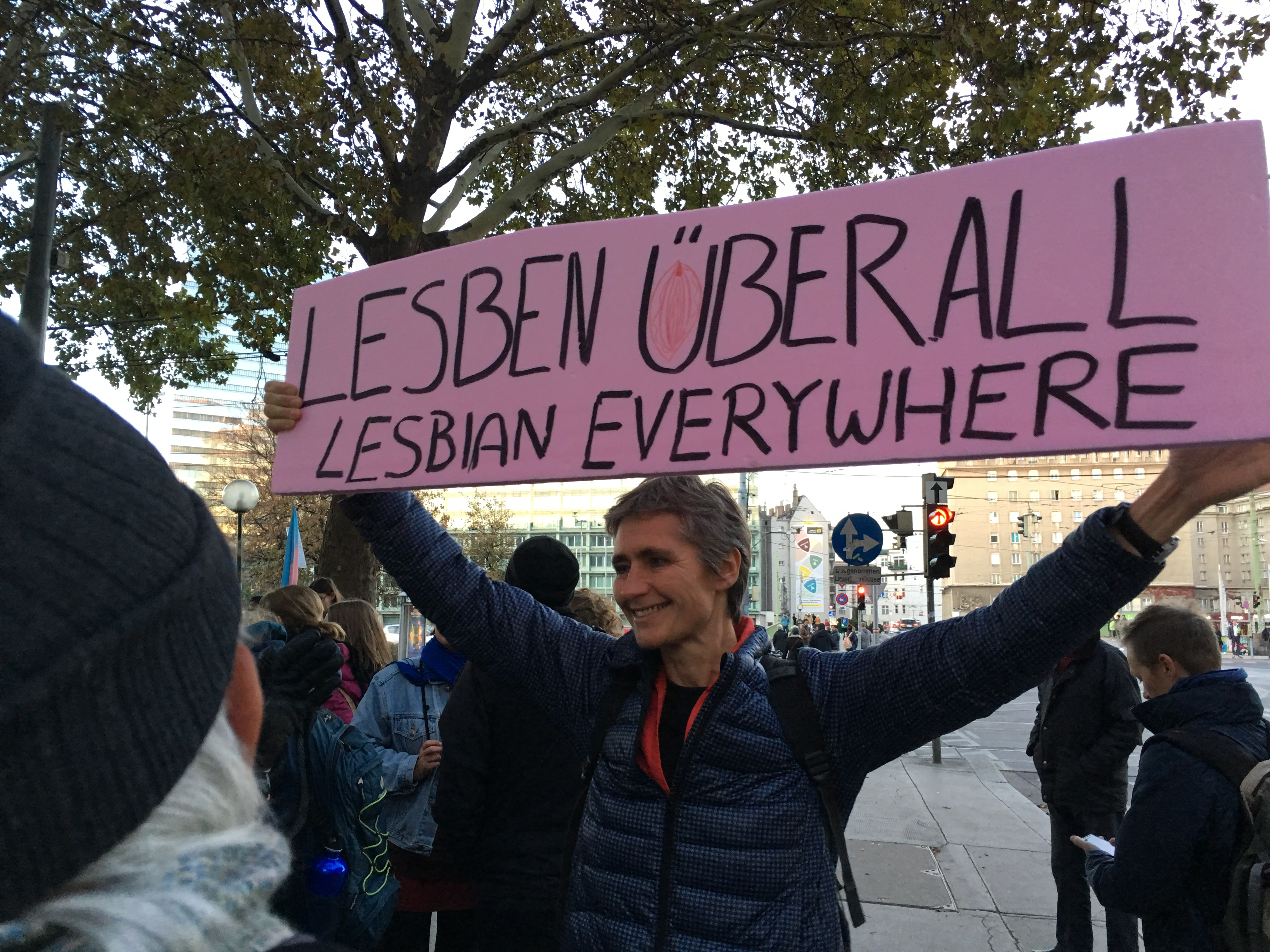 Photos taken during the